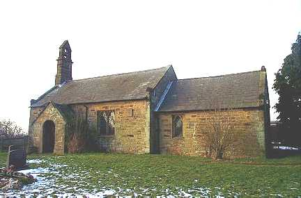 Thornton - le Beans , Chapel of ease. This Chapel is just to the south of centre of the O/S grid it occupies.